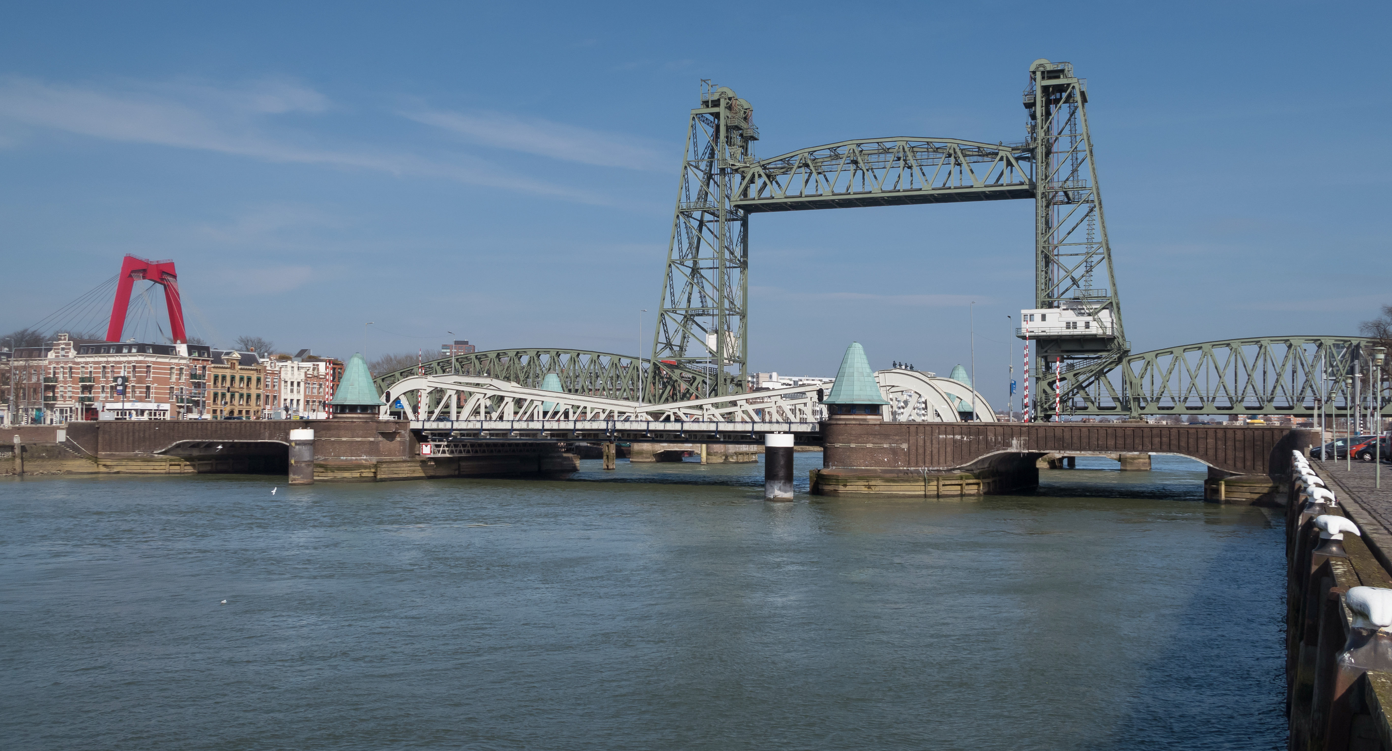 Rotterdam, bridge (the Koninginnebrug) and the Hef (former vertical-lift bridge for trains)